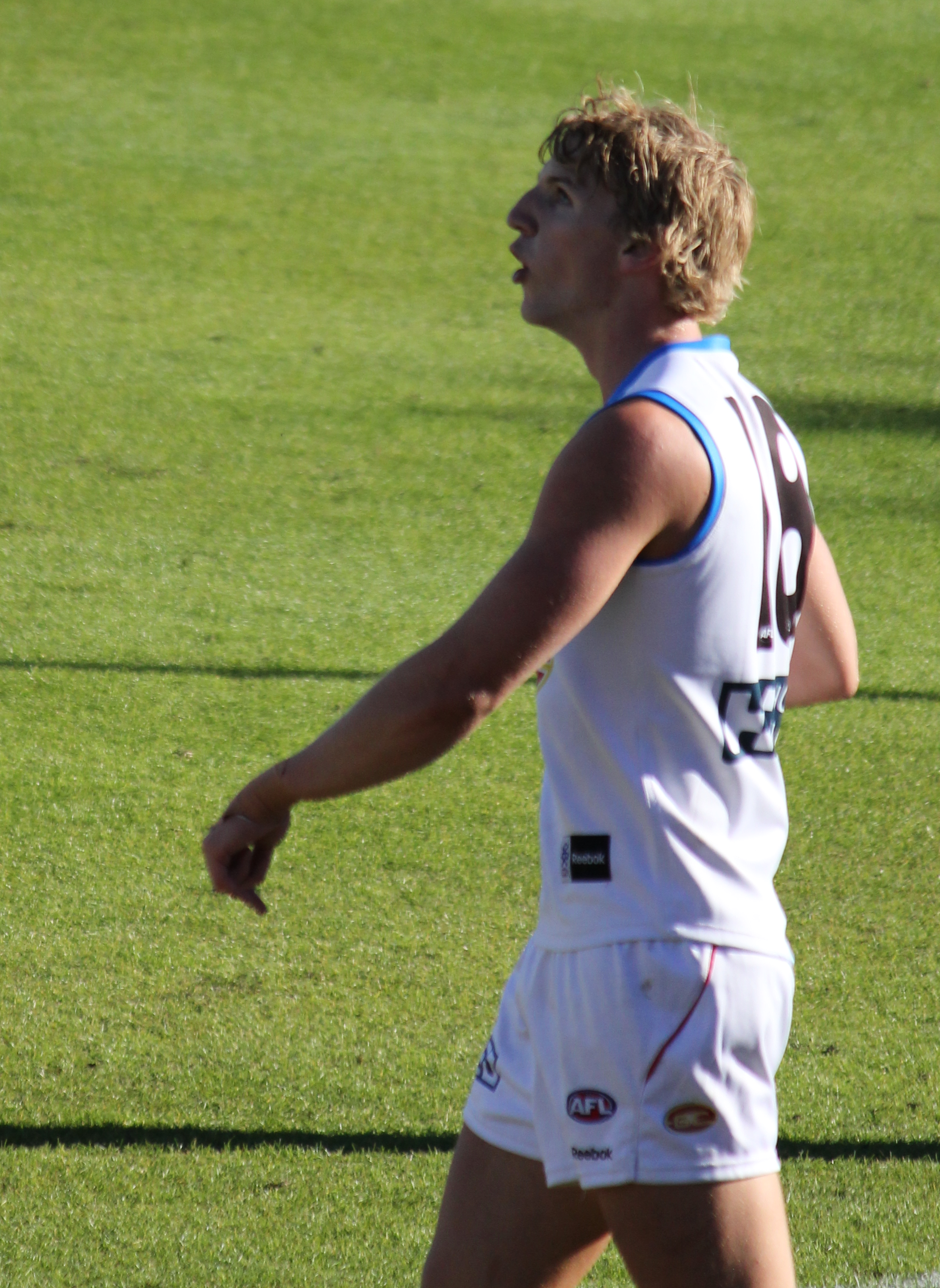 2012 Round 7. GWS Giants vs Gold Coast Suns. Manuka Oval.